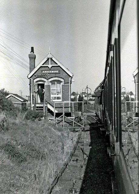 Signal cabin, Knockmore Jct, near Lisburn Knockmore was where GNR(I) lines to Antrim and Banbridge/Castlewellan left the Belfast – Dublin line. The Castlewellan line closed in 1955. The junction with the Antrim branch closed in 1977 when the line was extended to Lisburn station. In this view the conductor of the 17.05 Antrim – Lisburn is preparing to surrender the single-line tablet to the Knockmore signalman. This was a rural junction with a level crossing taking a country road across the railway. It is now suburban and commercial Lisburn with a wide road crossing the line by an overbridge.